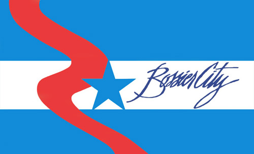 Flag of Bossier City